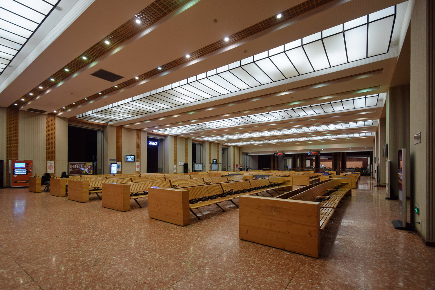 Waiting Room No.2 at 2/F of Lasa (Lhasa) Railway Station